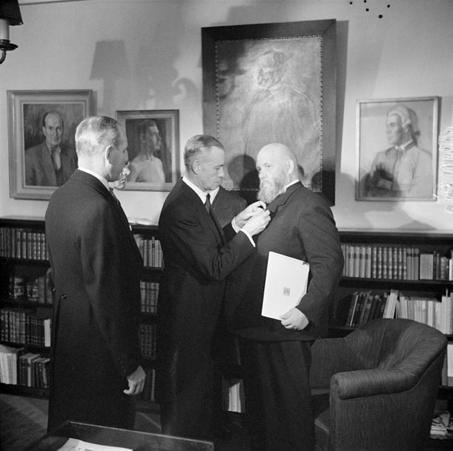 Chief executive officer Heikki Reenpää attaches the publishing house Otava's badge for merit, the Agricola medal, on Sillanpää's lapel. Otava had ”redeemed” the author from WSOY in the late 1920s.